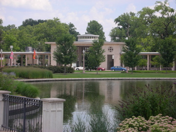 Front of the Muny Theatre in Forest Park, St. Louis, Mo